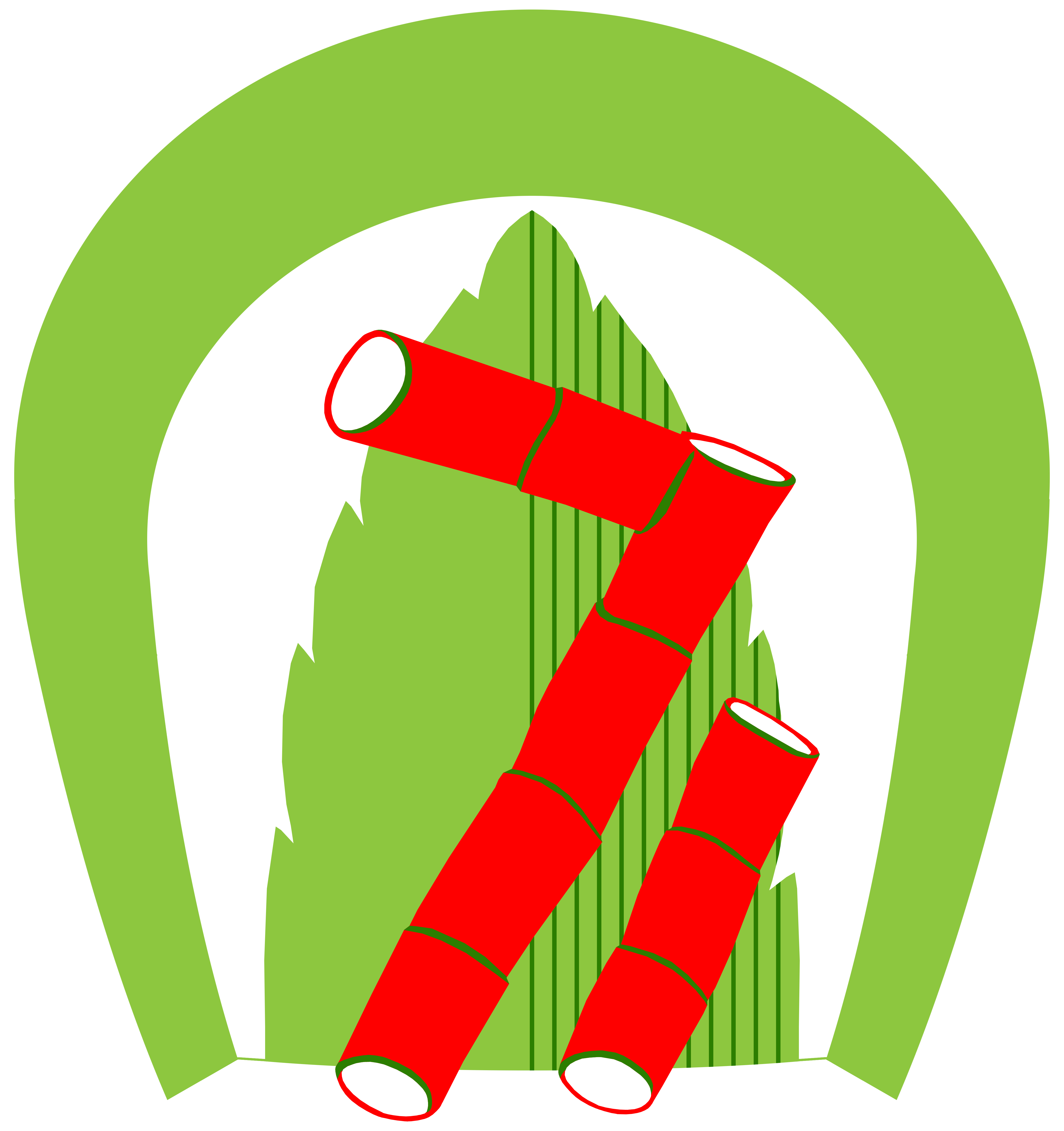 1st Philippine Division emblem from 1941-42 (version 2), possibly not developed until late in that period or just after; color versions of this are a matter of record, and bronze version(s) of these emblems are seen on monuments around the Philippines.